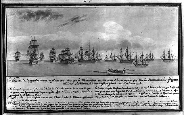 Le Languedoc jury-rigged at sea, as well as le Marseillais, with the topmasts tied together from all the ships and frigates of the squadron, except le César; underway on 17 August 1778